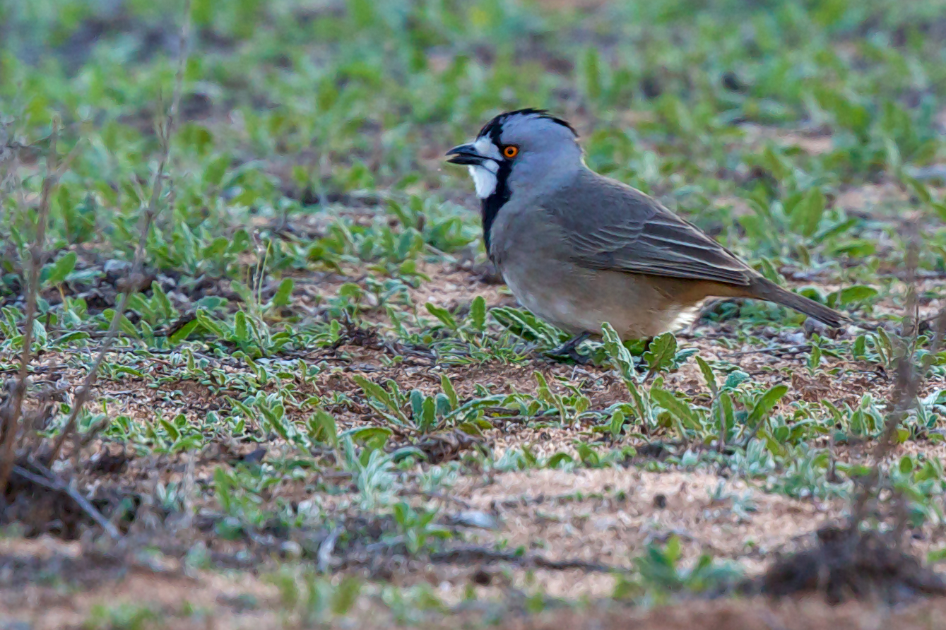 Oreoica gutturalis gutturalis: Southern Crested Bellbird Rockholes, Murray-Sunset National Park, Victoria, Australia. Along the trackside in front of the car allowing this image to be taken from out of the passenger window.